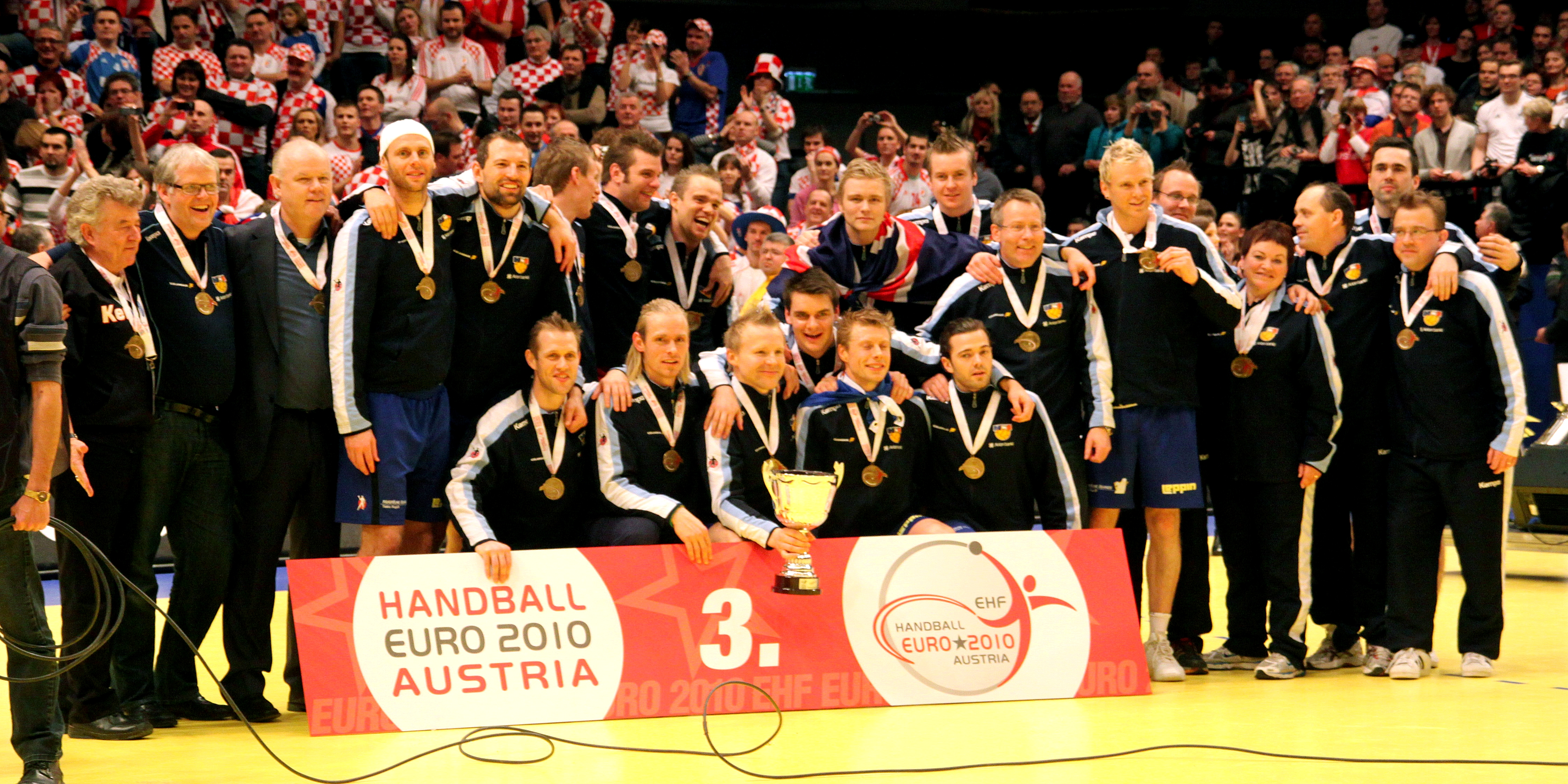 The players of the Iceland national handball team are jubilant about the first third in the 2010 European Men's Handball Championship